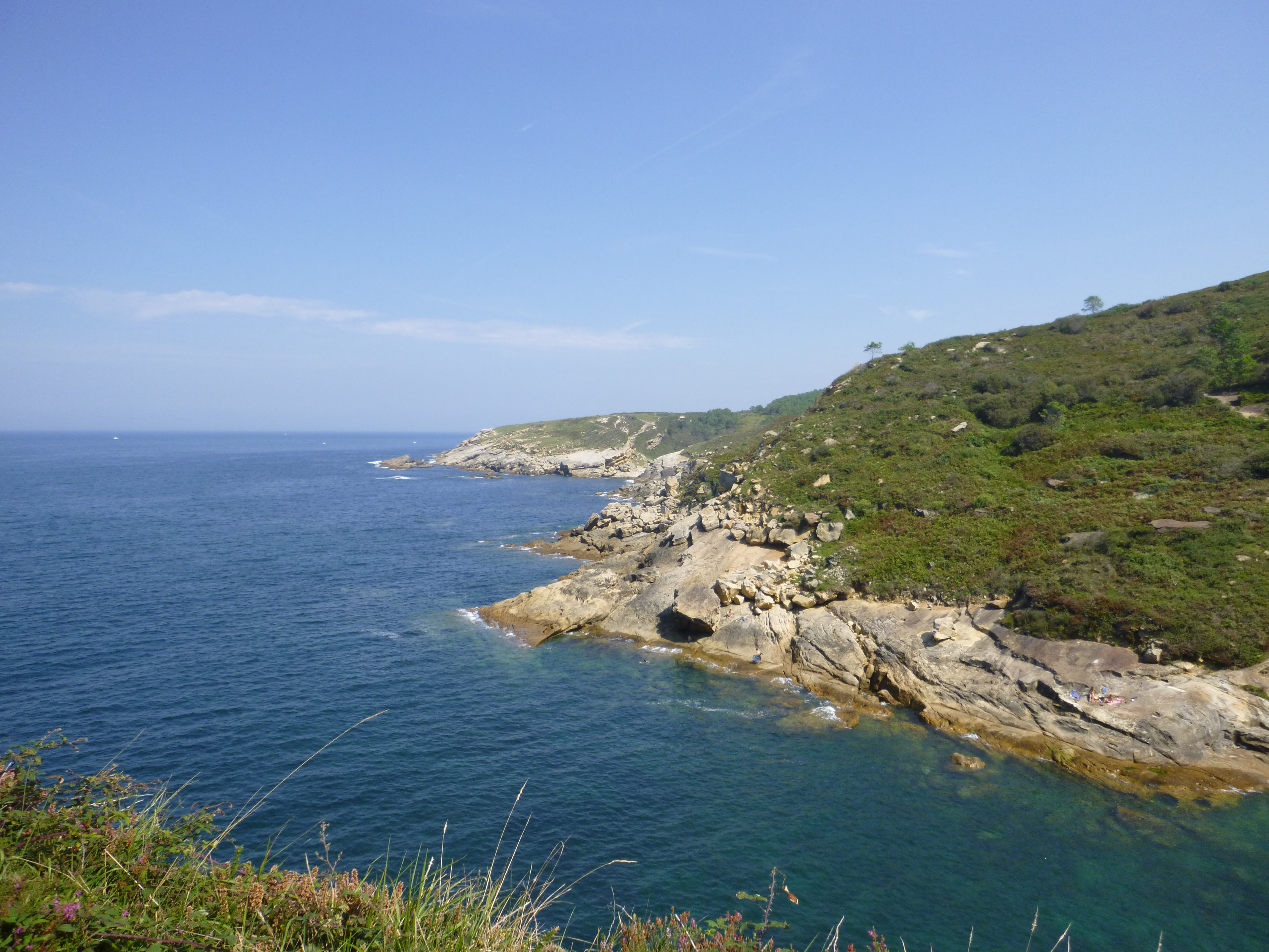 Jaizkibel